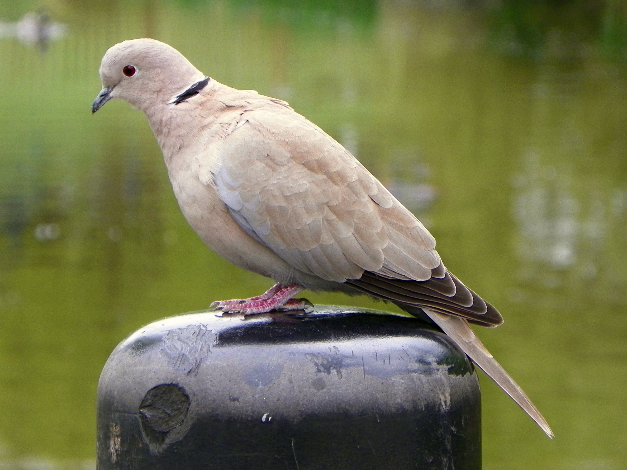 Collared Dove (Streptopelia decaocto), Fairlands Valley Park, Stevenage, 15 April 2011.